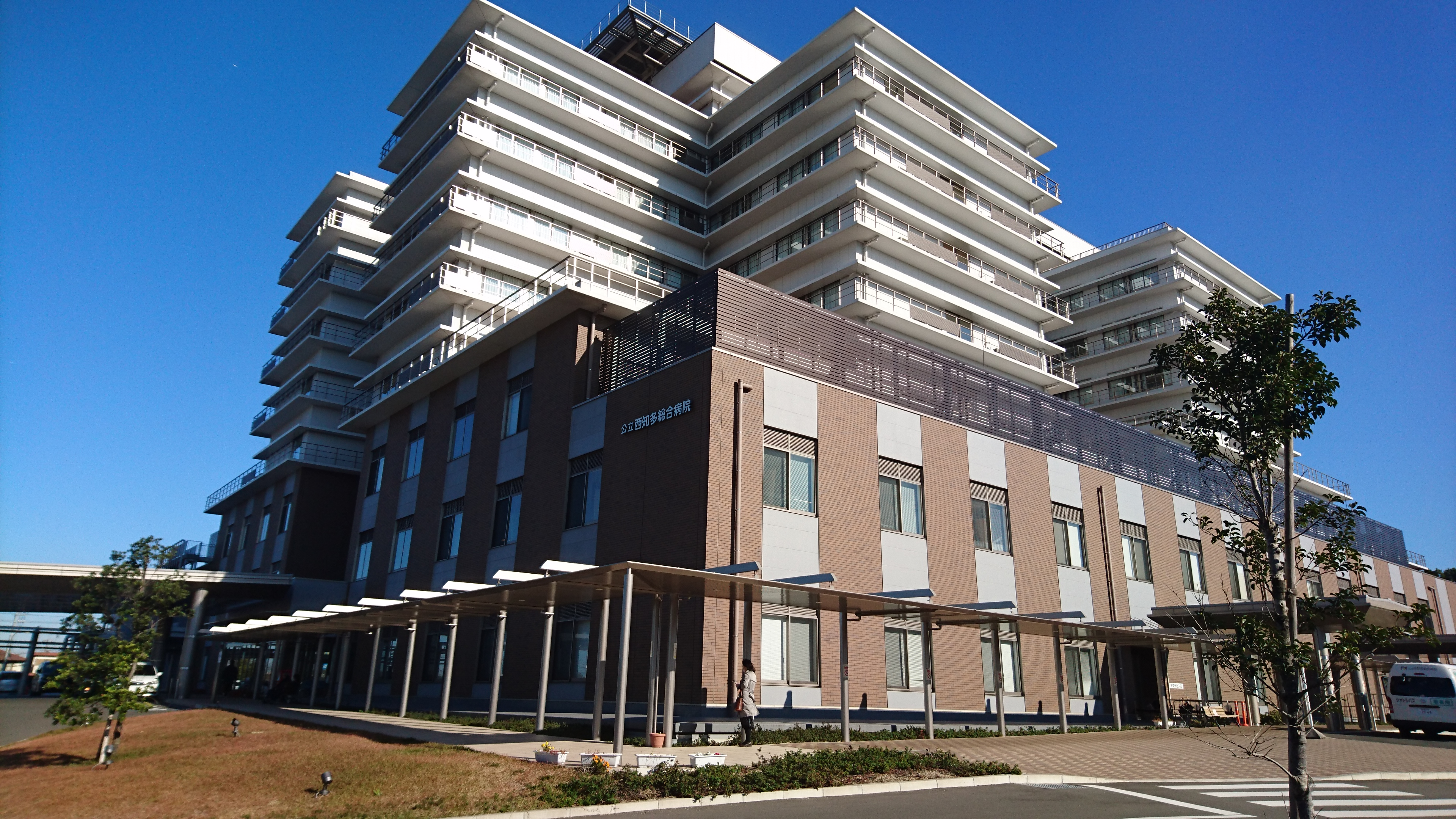 Nishi Chita General Hospital